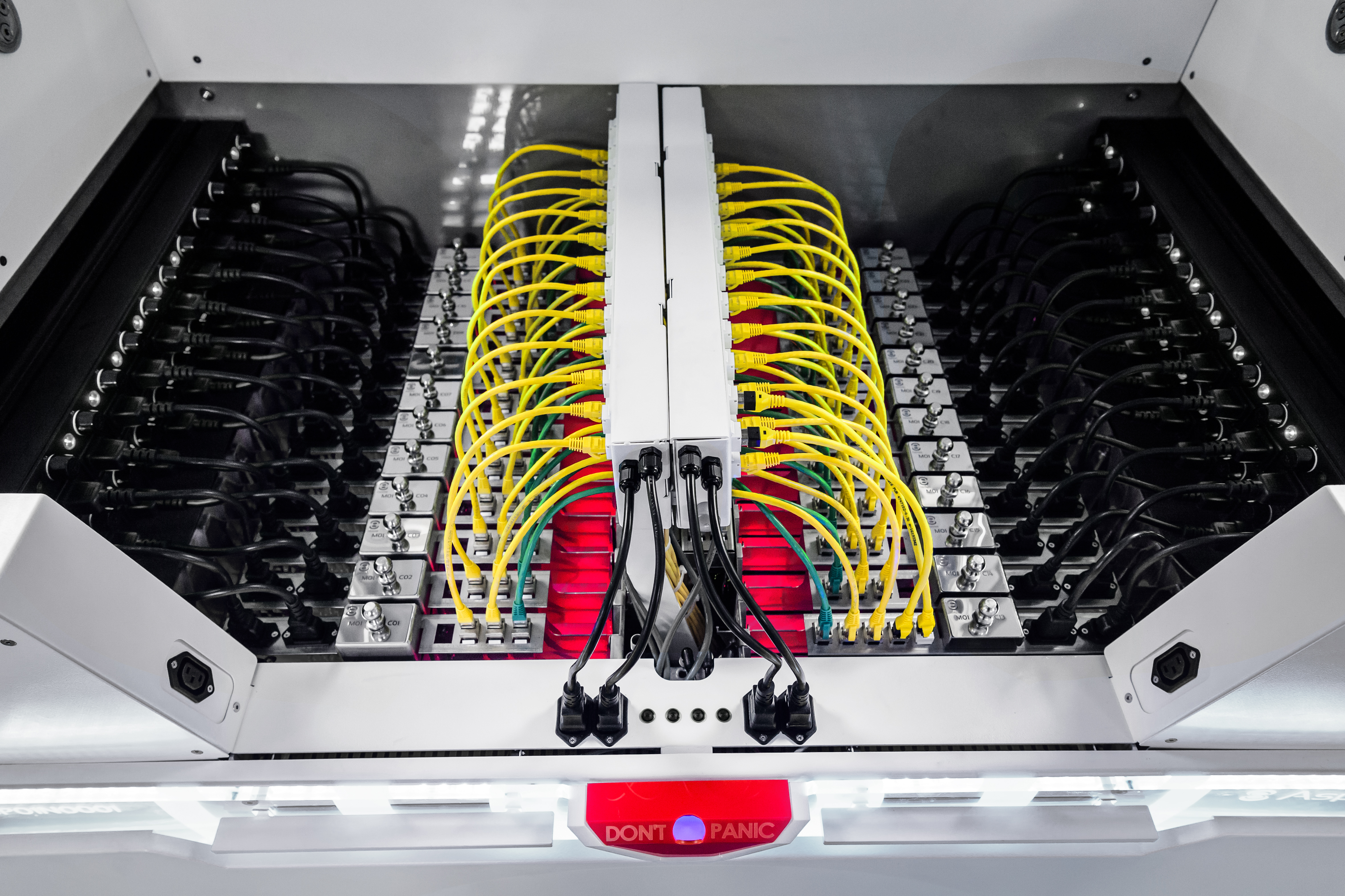 Asperitas AIC24 Immersion system